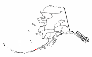 Adapted from Wikipedia's AK borough maps by Seth Ilys.